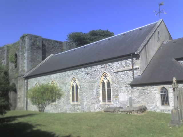 Image of St. David's CofI Naas